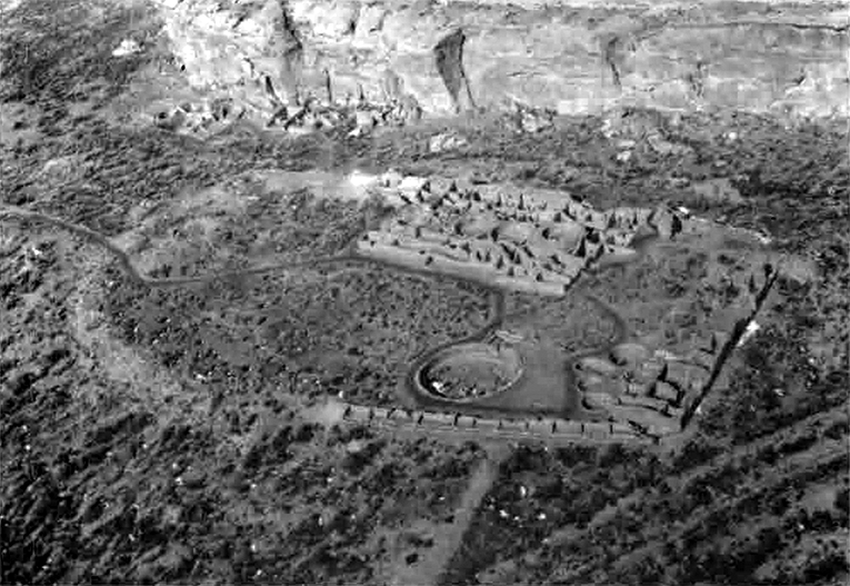 A National Park Service picture of Chetro Ketl from the south, 1981, by Stephen H. Lekson